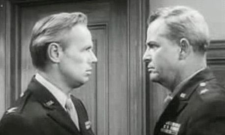 Screenshot of Richard Widmark from the film Judgment at Nuremberg (1961)